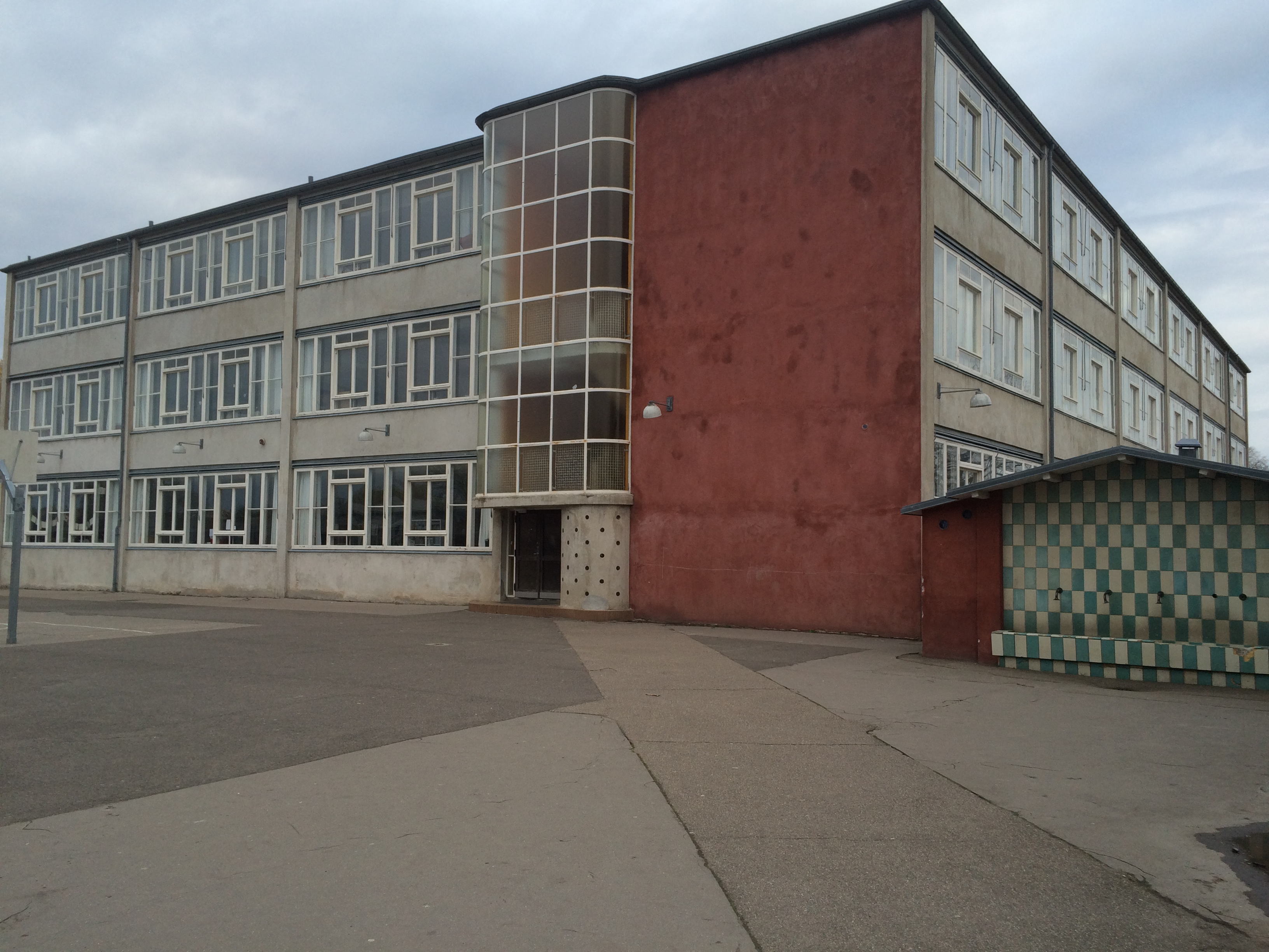 Skolen ved Sundet, a public school in Copenhagen, Denmark